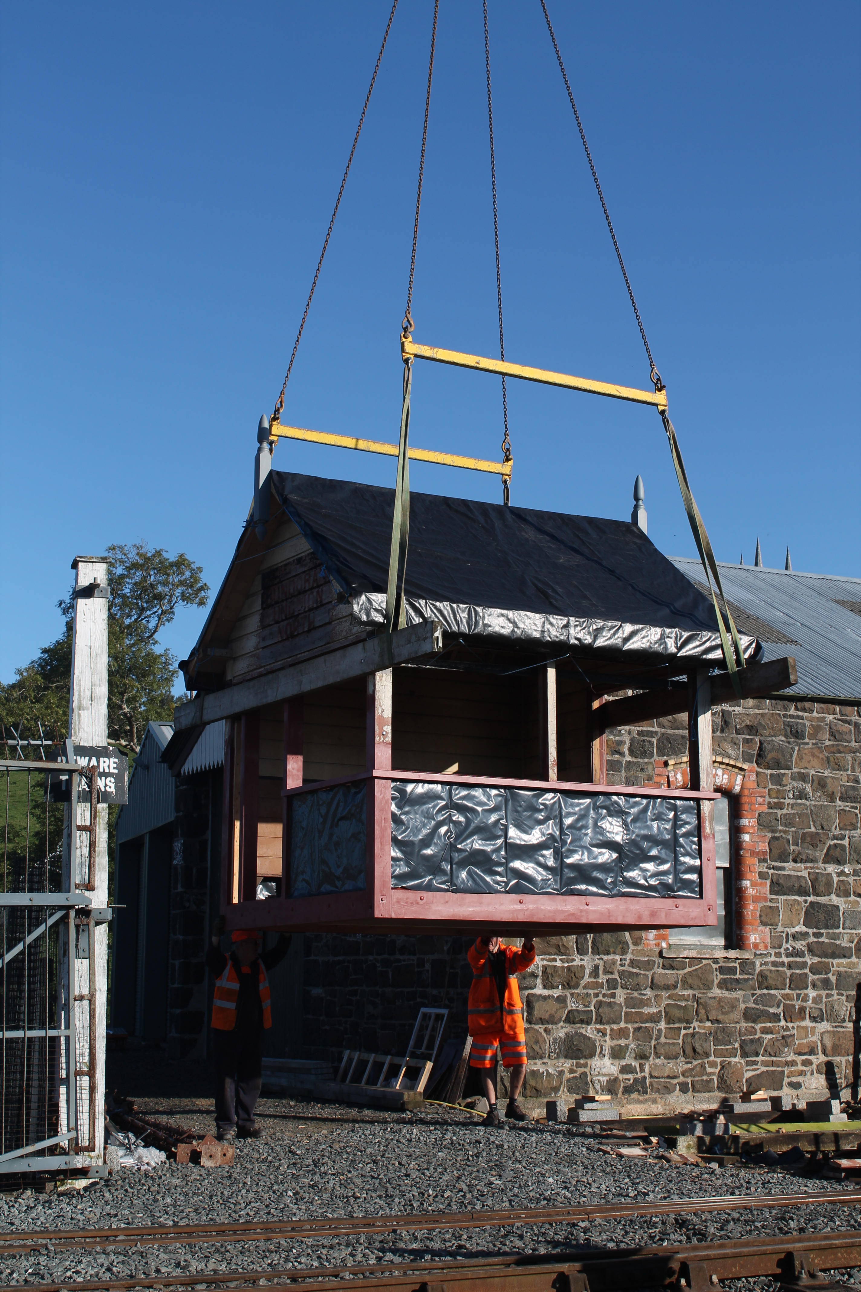 The former Bundoran Junction North signal cabin being lifted at Downpatrick.